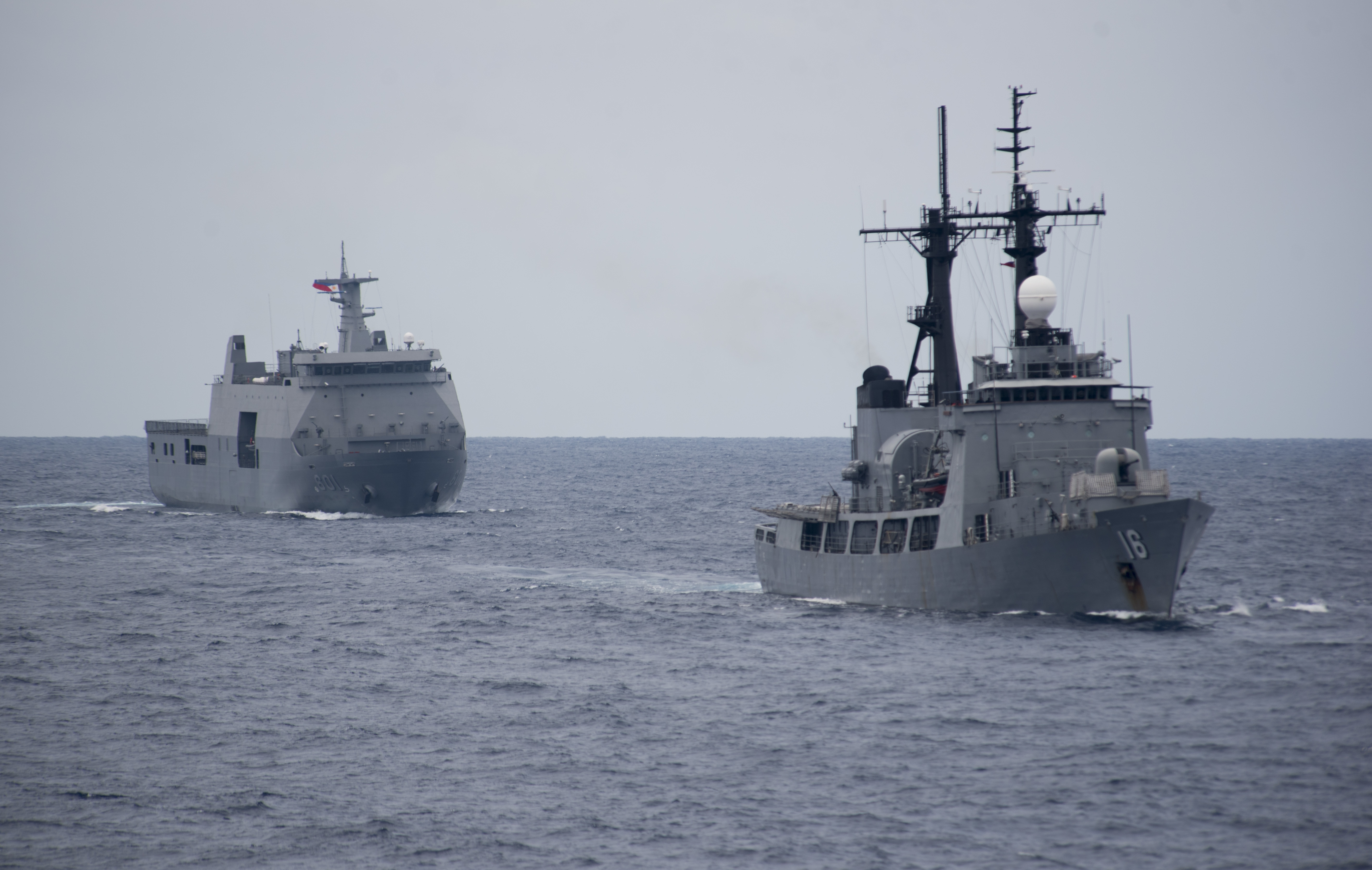 180712-N-OU129-033 SOUTH CHINA SEA (July 12, 2018) Philippine Navy ships BRP Tarlac (LD-601) and BRP Ramon Alcaraz (FF-16) sail in formation with the USNS Millinocket (T-EPF 3) during the at-sea portion of Maritime Training Activity (MTA) Sama Sama 2018. The week-long engagement focuses on the full spectrum of naval capabilities and is designed to strengthen the close partnership between both navies while cooperatively ensuring maritime security, stability and prosperity. (U.S. Navy photo by Mass Communication Specialist 2nd Class Joshua Fulton/Released)